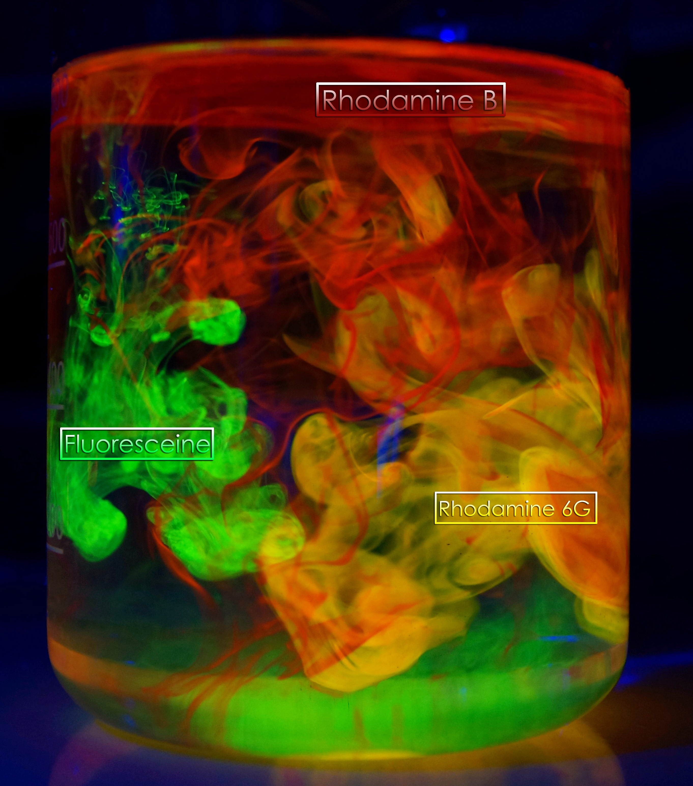 Three different substances fluorescense in UV rays. Substances were dissolved in water about 0,0001% solution.